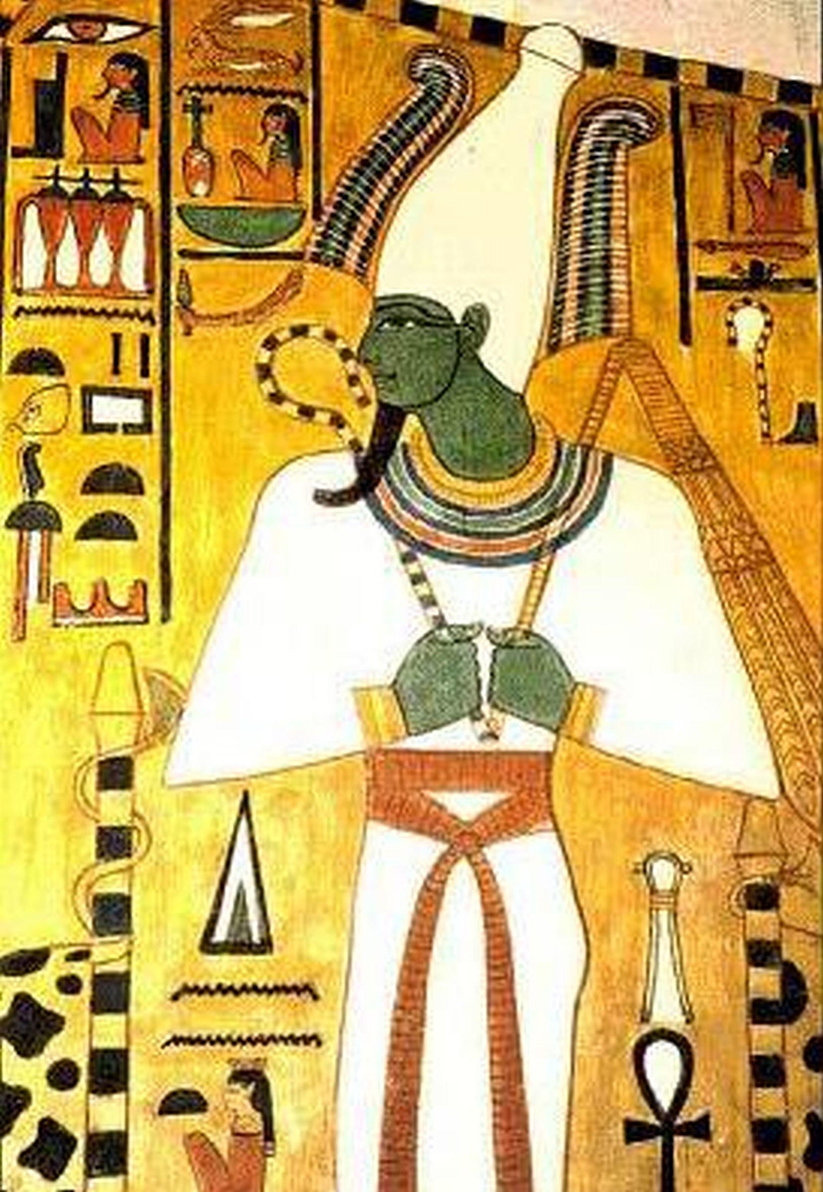 Detail of a frieze on a wall of tomb QV66, the burial place of Nefertari (c. 1295-1255 B.C.), royal wife of Ramesses the Great, featuring the Egyptian god Osiris.